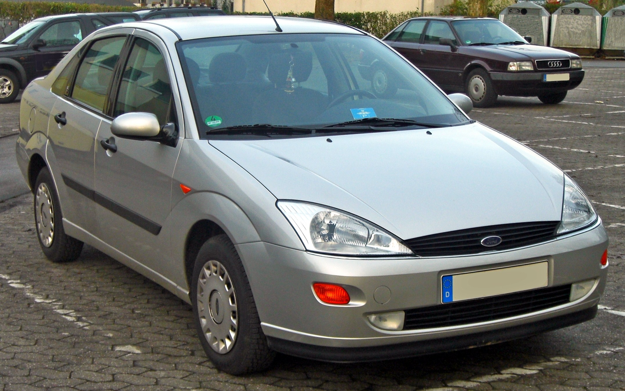 Description: Ford Focus I Stufenheck Source: Matthias Other Version(s)